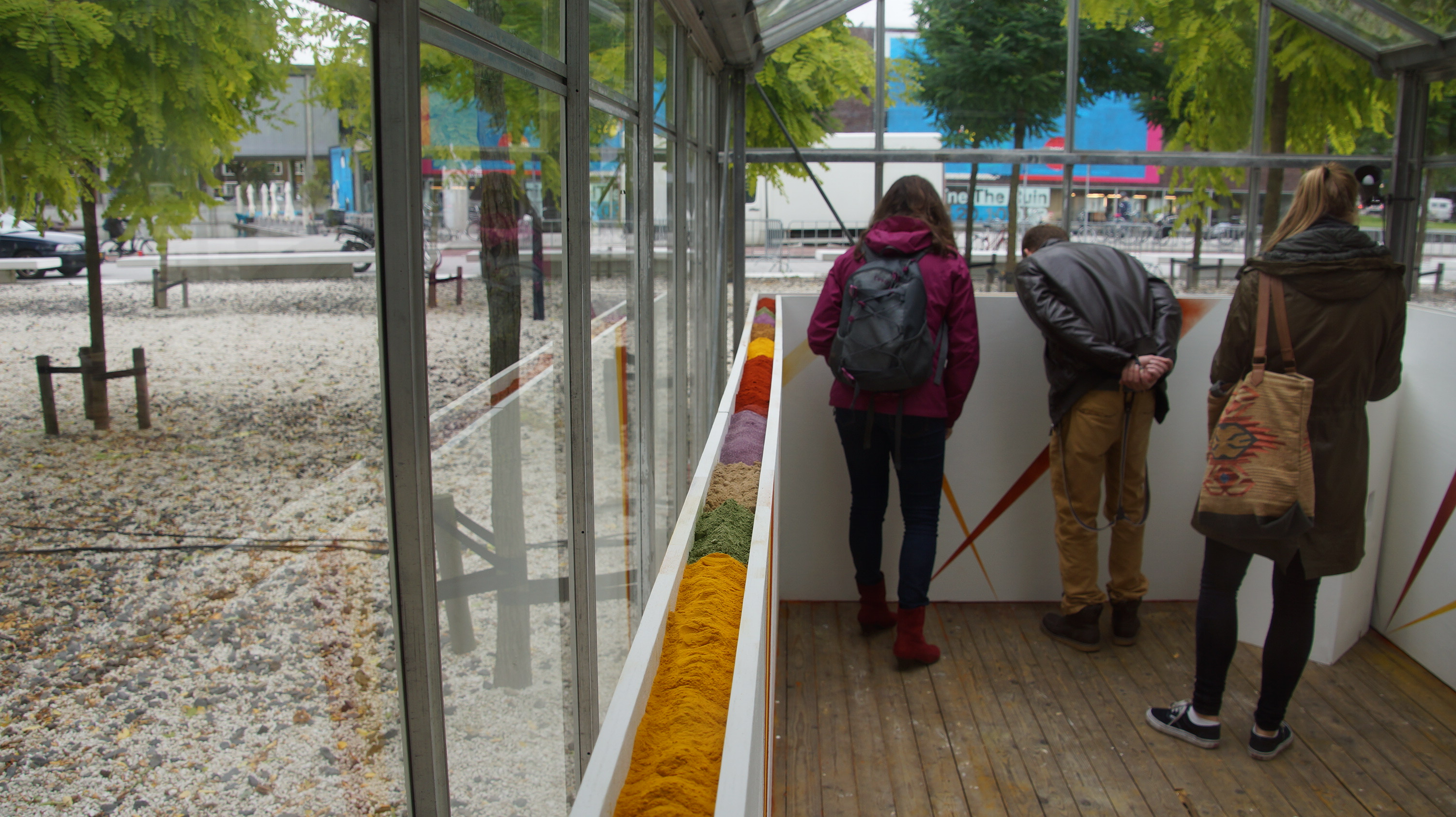 Dear Future by Sita Kuratomi Bhaumik Sita Kuratomi Bhaumik from the United States demonstrated at the World Food Festival from 18 September to 27 October 2013 in Rotterdam that "eating together establishes an emotional bond between people. This has always been the case wen will always be so" according to the artist's statement. She created a wall of spices, such as paprika, green tea, purple yam, coriander, cumin, cloves , cardamon, cinnamon and tumeric which triggers the collection of thoughts and stories of the visitors with various migration backgrounds.